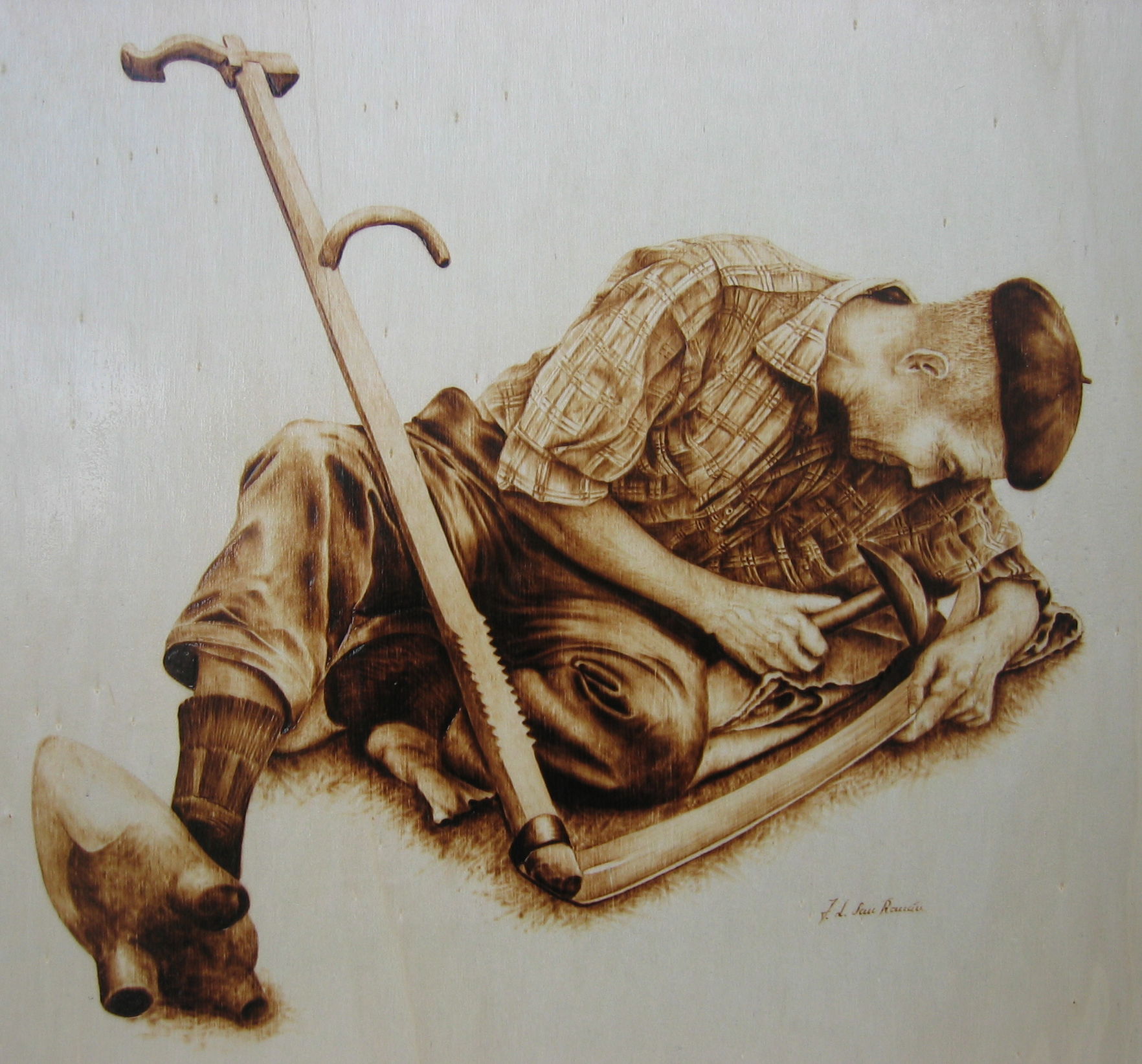 A peasant sharpening his scythe. Pyrography on wood panel.